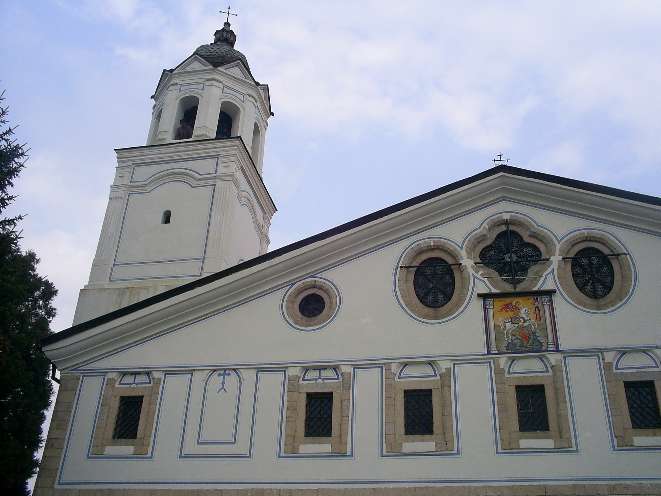 Church Saint George in Panagyurishte, Bulgaria